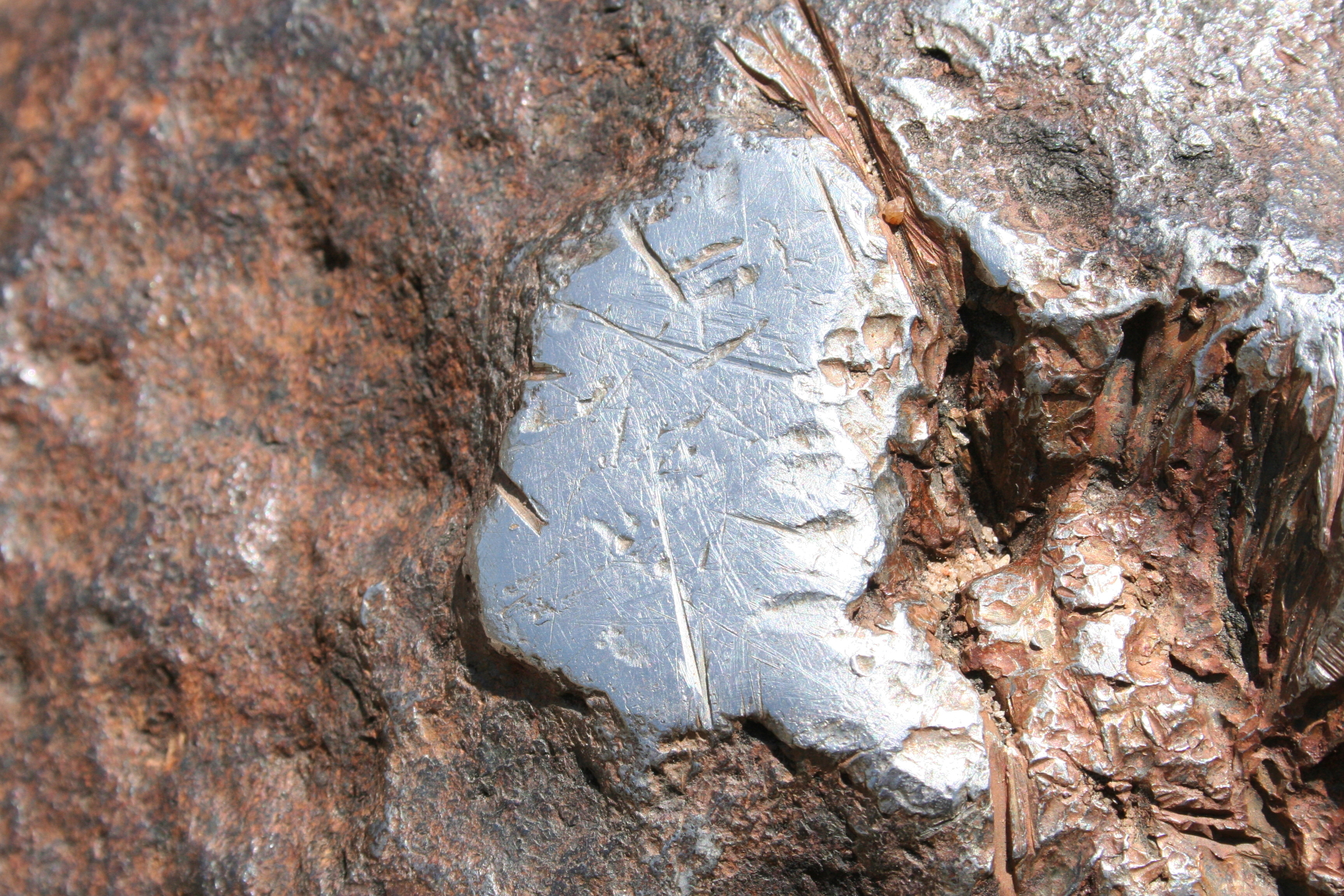 Vandalism on the Hoba meteorite near Grootfontein, Namibia.